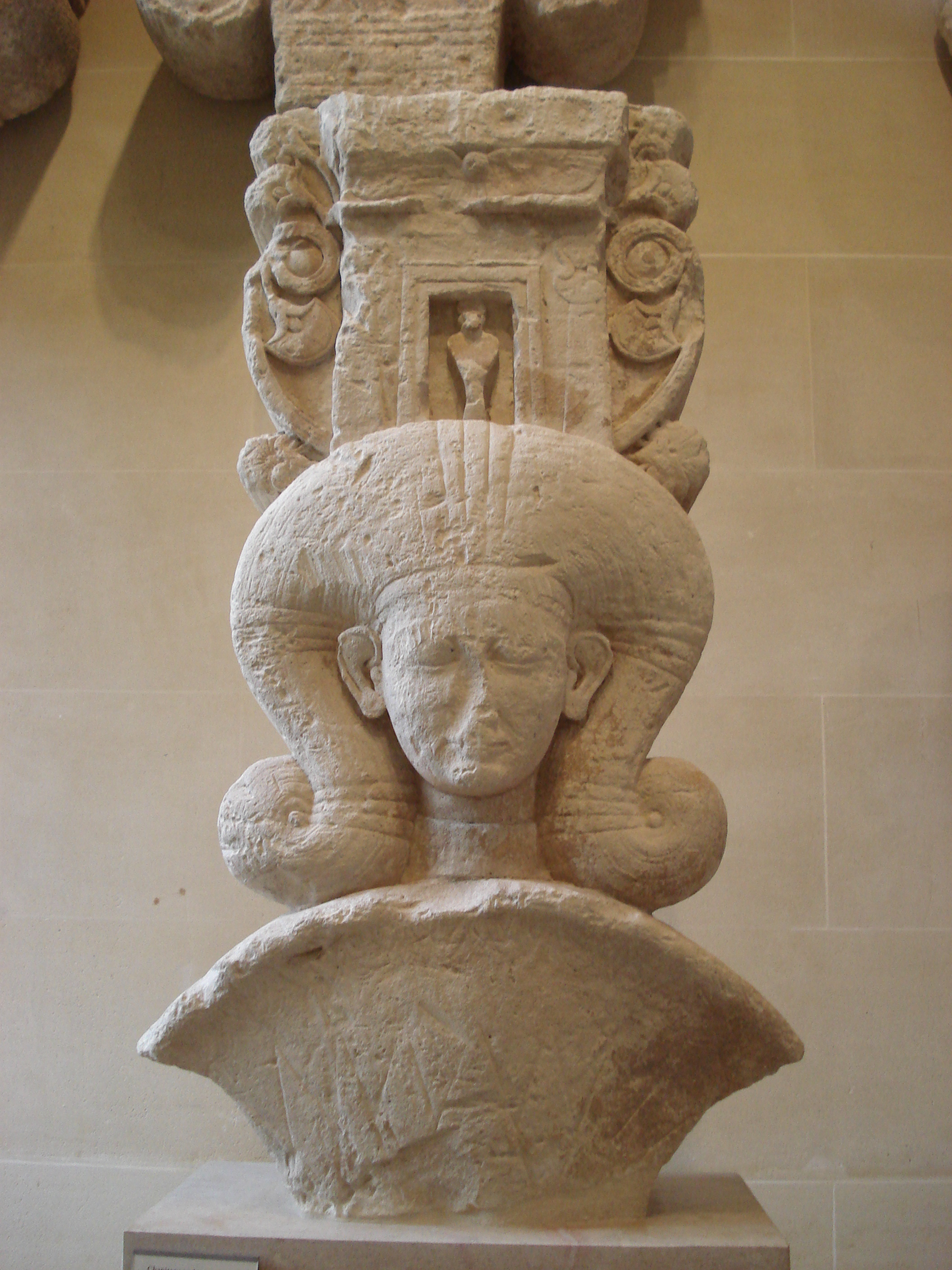 Louvre Museum